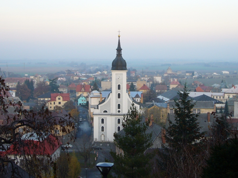 General view of Javorník town with Holy Trinity Church (Jeseník District, Czech Republic)